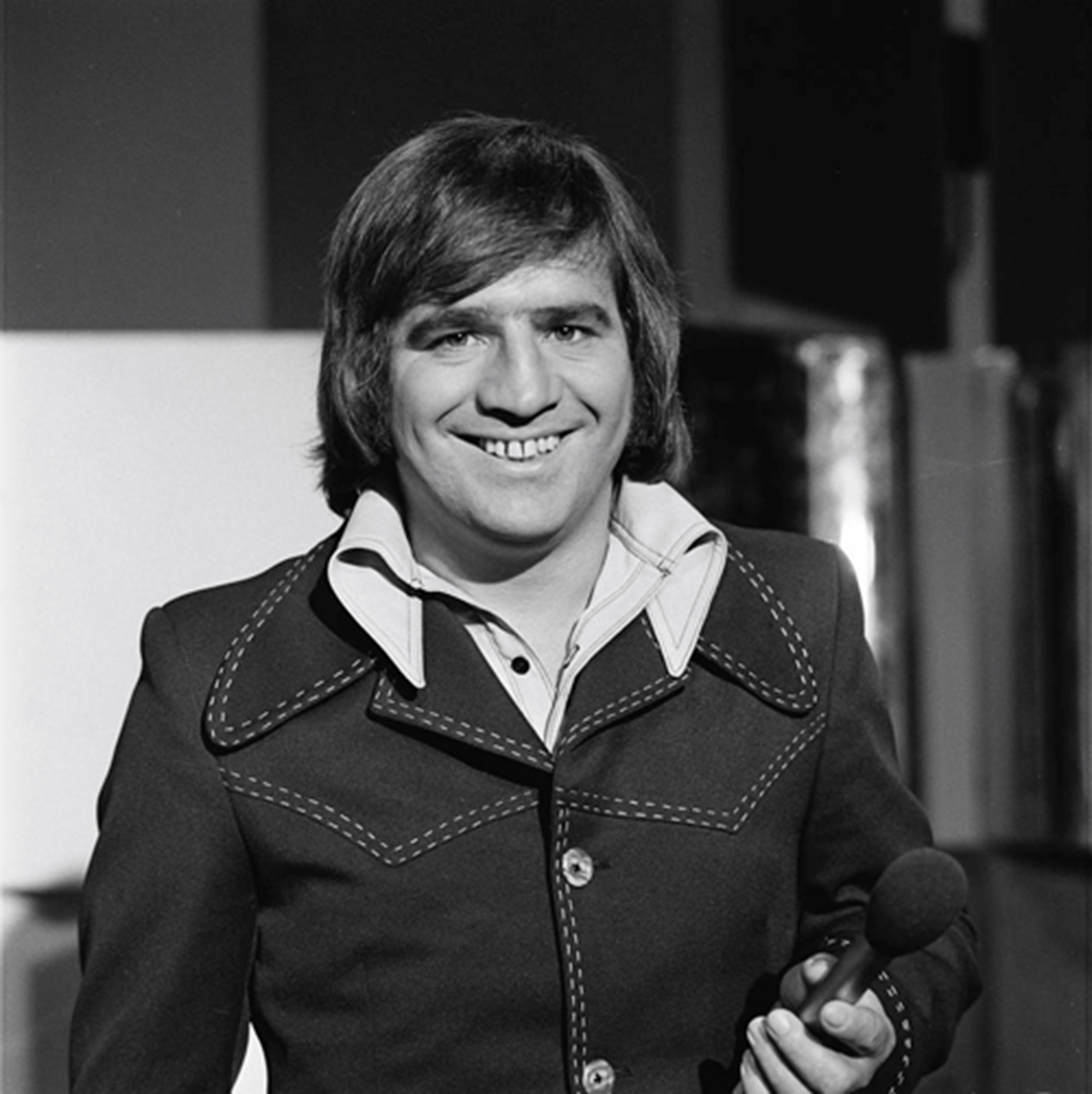 Joe Dolan in AVRO's TopPop (Dutch TV), 17 July 1975